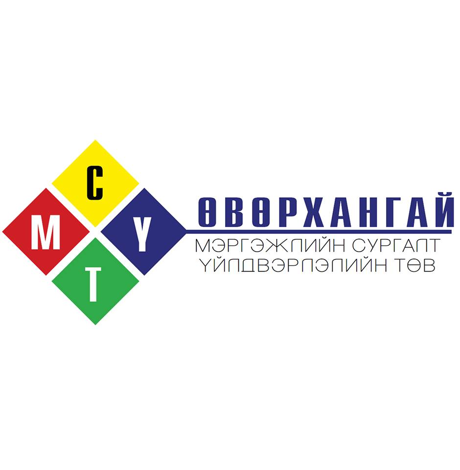 TVET in Uvurkhangai